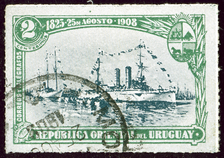 Stamp of Uruguay, 2 C issue 1908. Independence declaration on 25 August 1825. Military ship 'Montevideo'. Ex Italian protected cruiser Dogali.